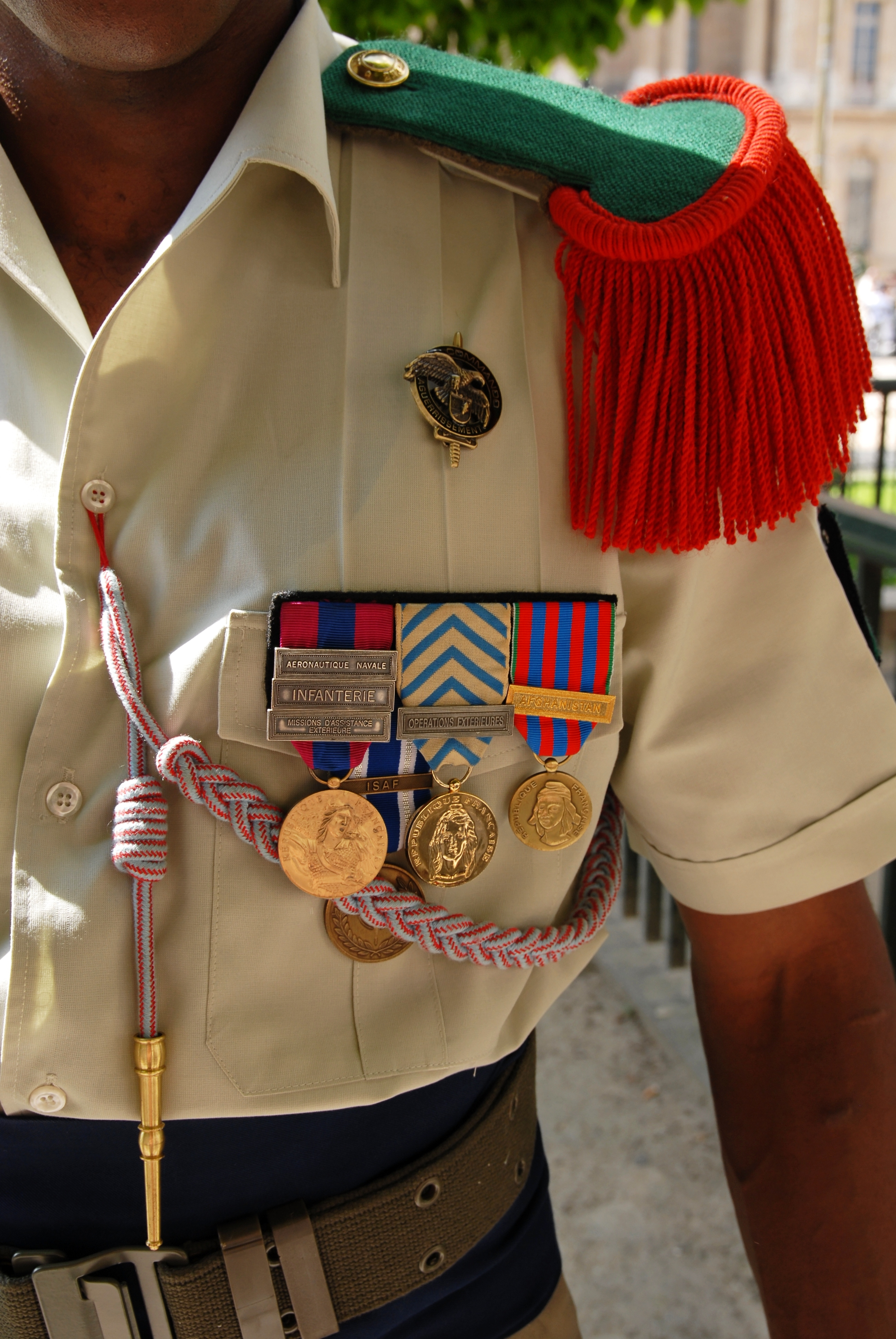 Blue and red fourragère (Croix de Guerre TOE) worn by a soldier of the 2e REI (2nd Foreign Legion Infantry).